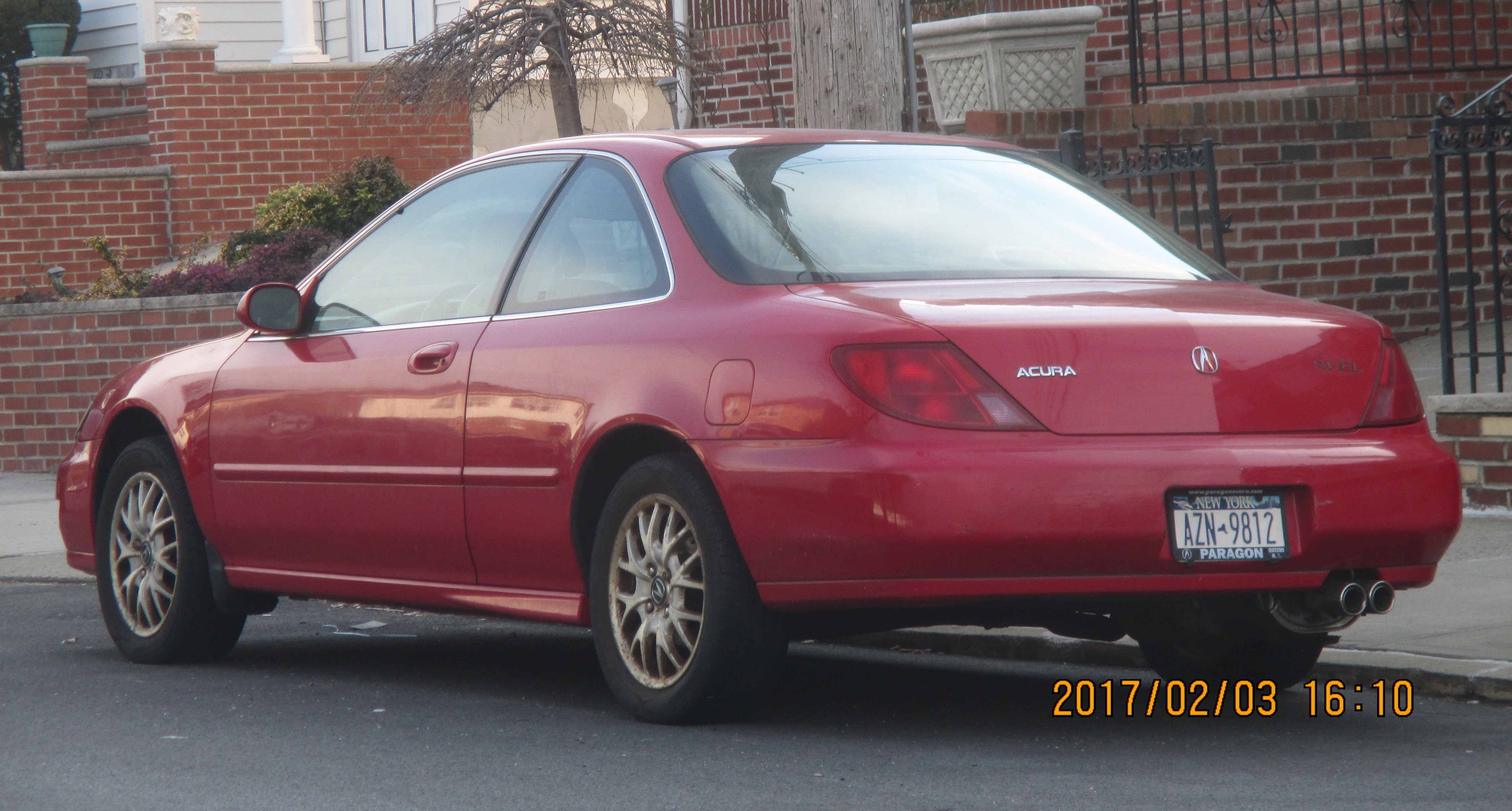 In Bayside, NY